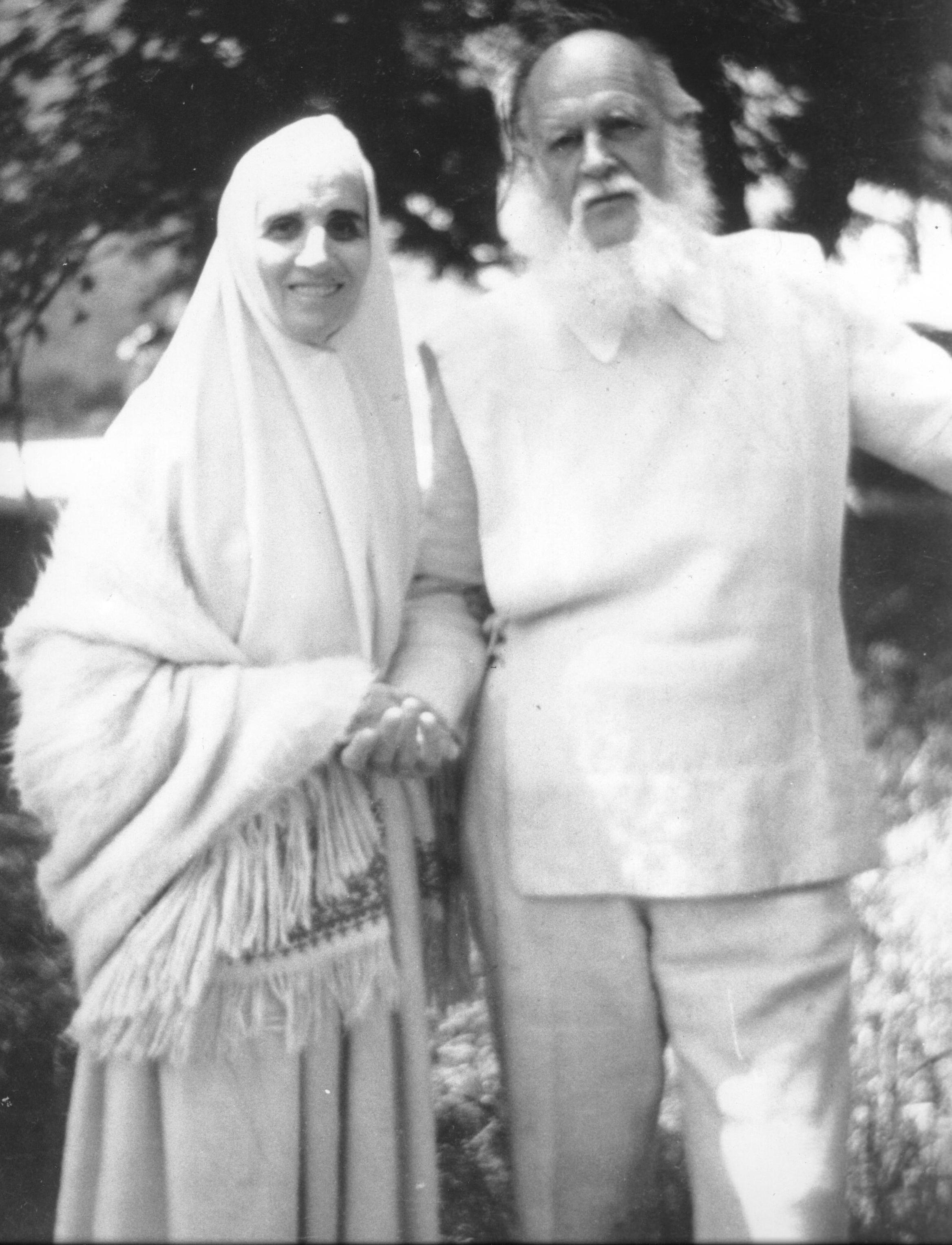 Lanza del Vasto and his wife, Chanterelle.